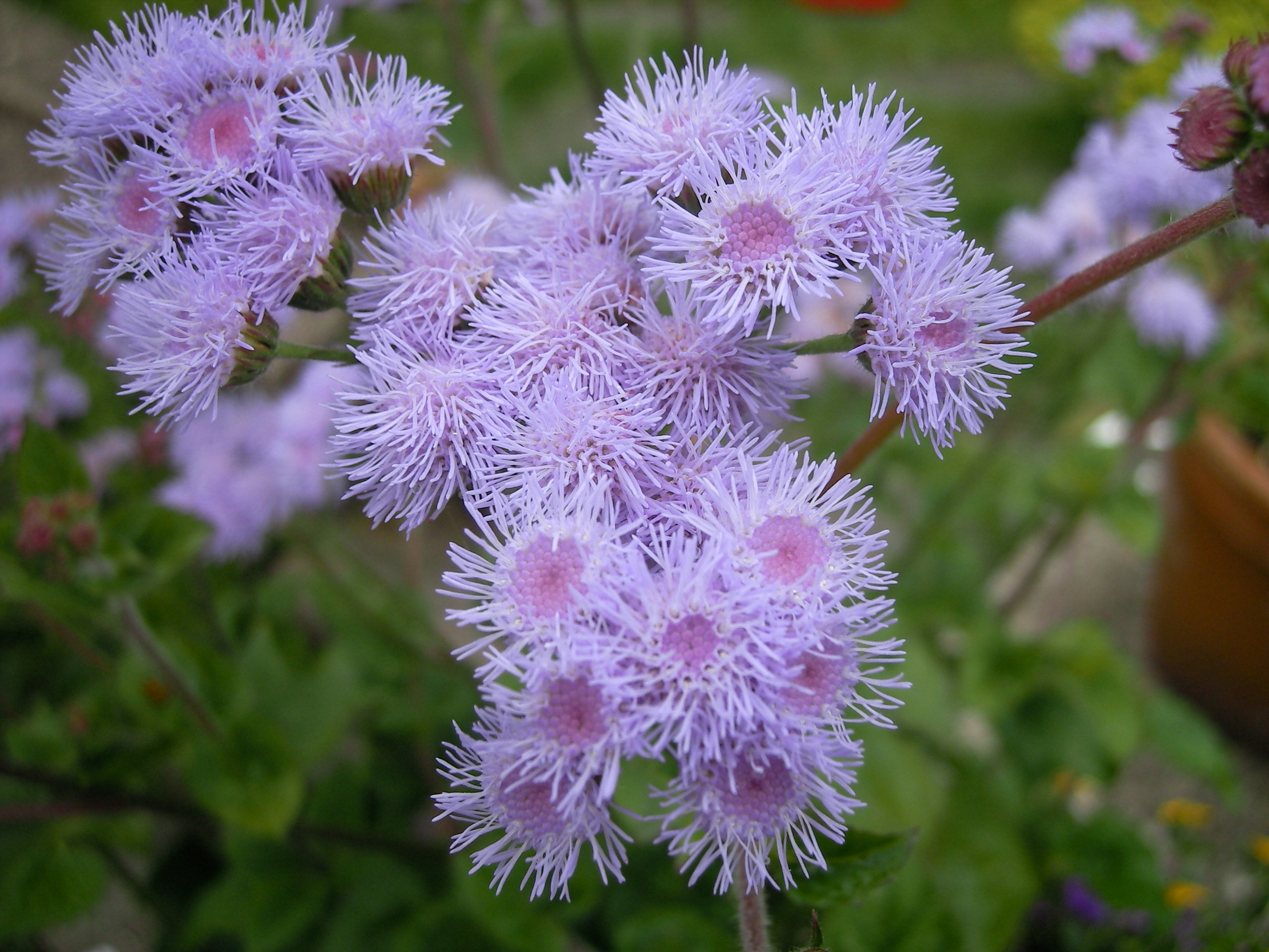 Ageratum houstonianum